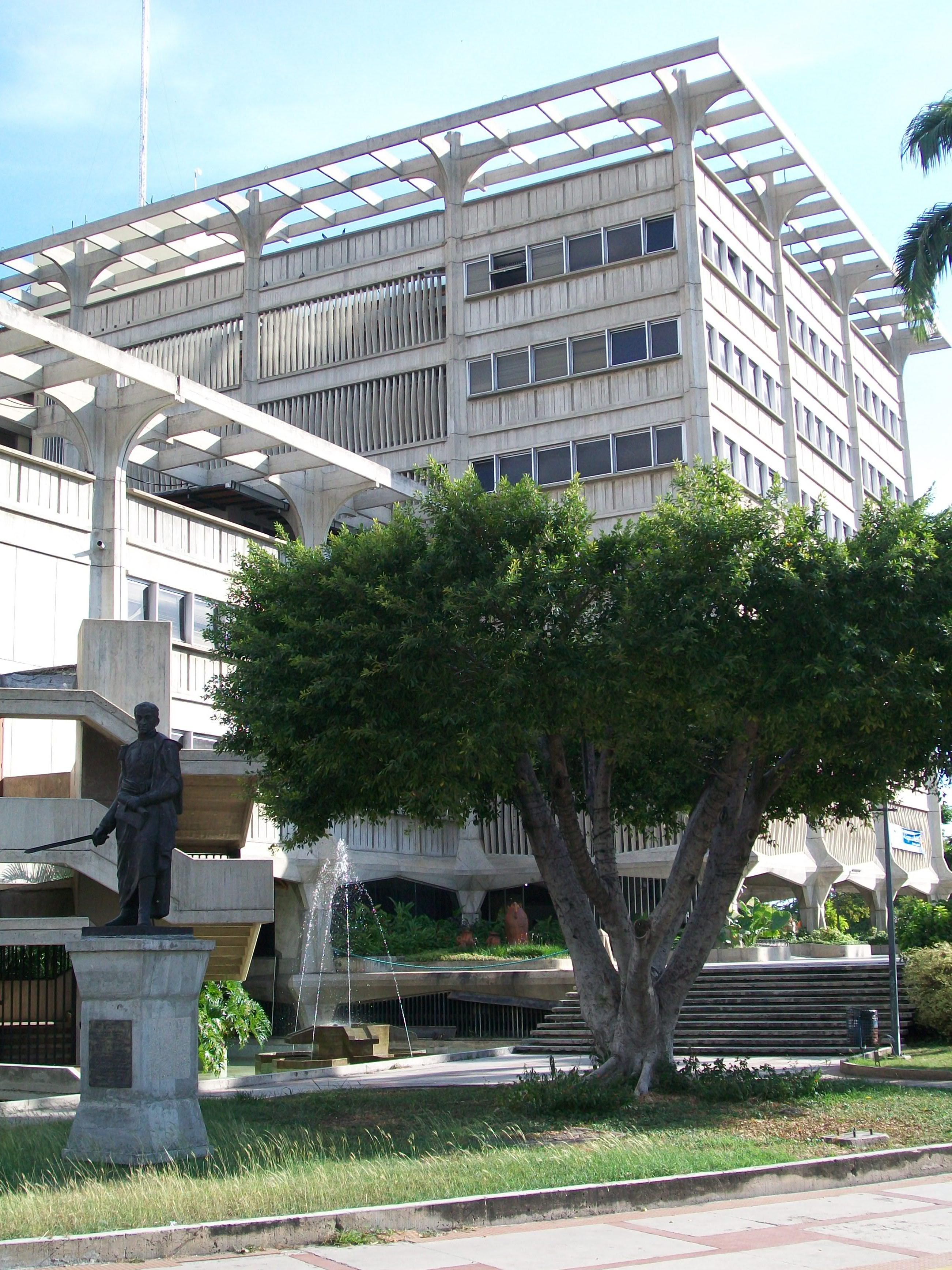 Building of the Girardot Municipality, Aragua, Venezuela.